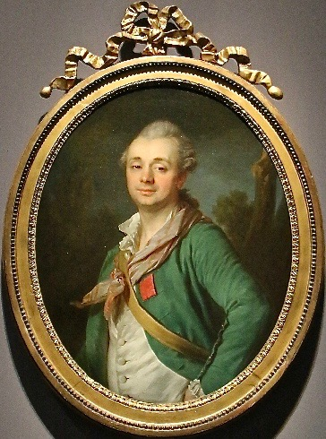 Portrait of Alexandre de Falcoz de La Blache (1739-1799)